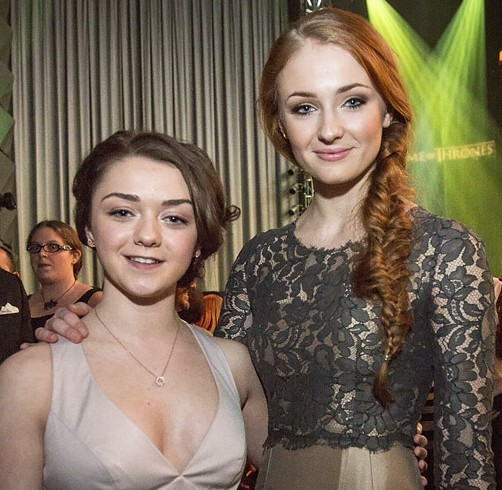 Photos by